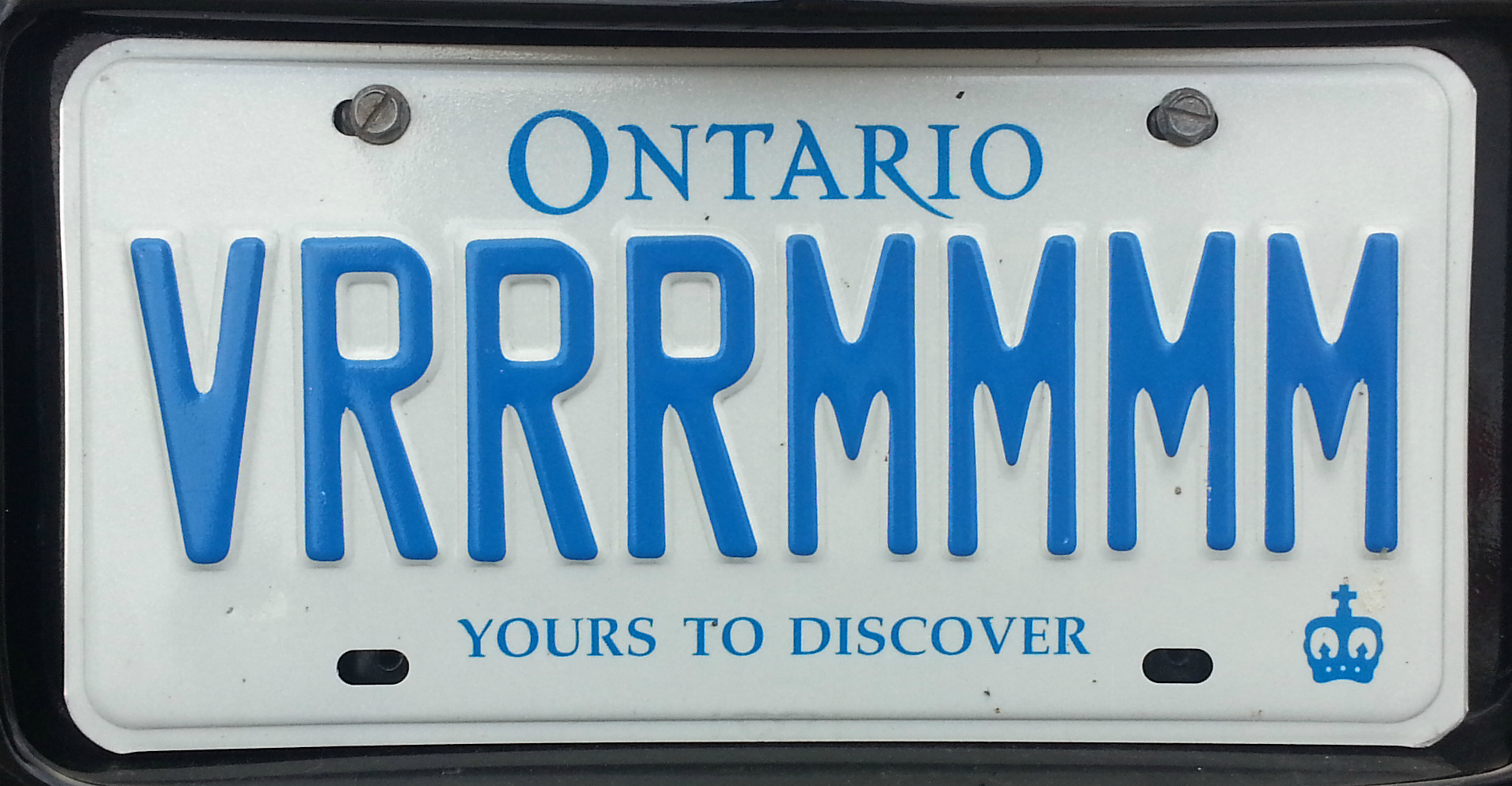 Ontario personalised license plate. Front license plate displayed here. In Ontario, personalised plates can have a combination of up to eight characters, including letters, numbers, and the crown. This plate has eight letters.